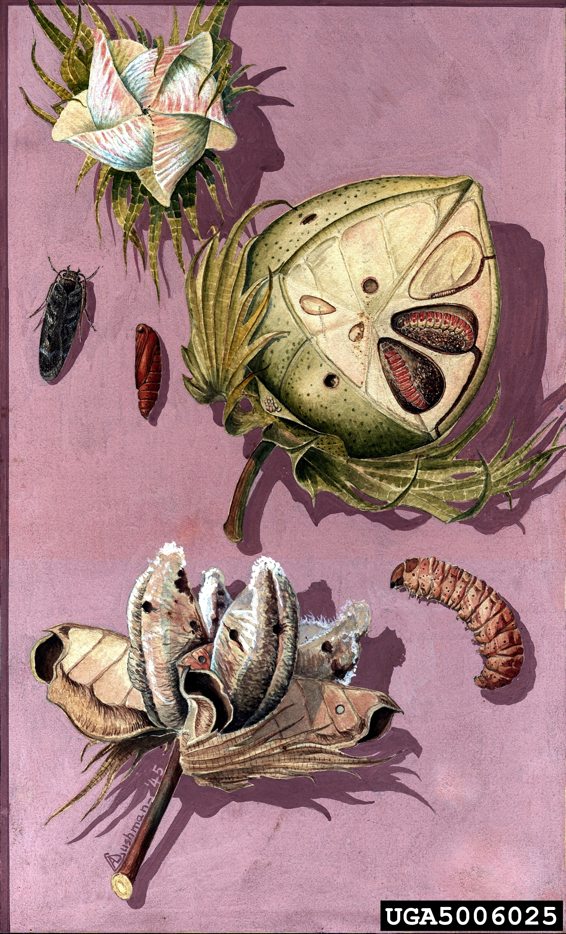 Pectinophora gossypiella